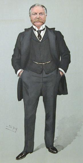 Caricature of Edward Ponsonby, Lord Duncannon. Caption read "Duncannon".